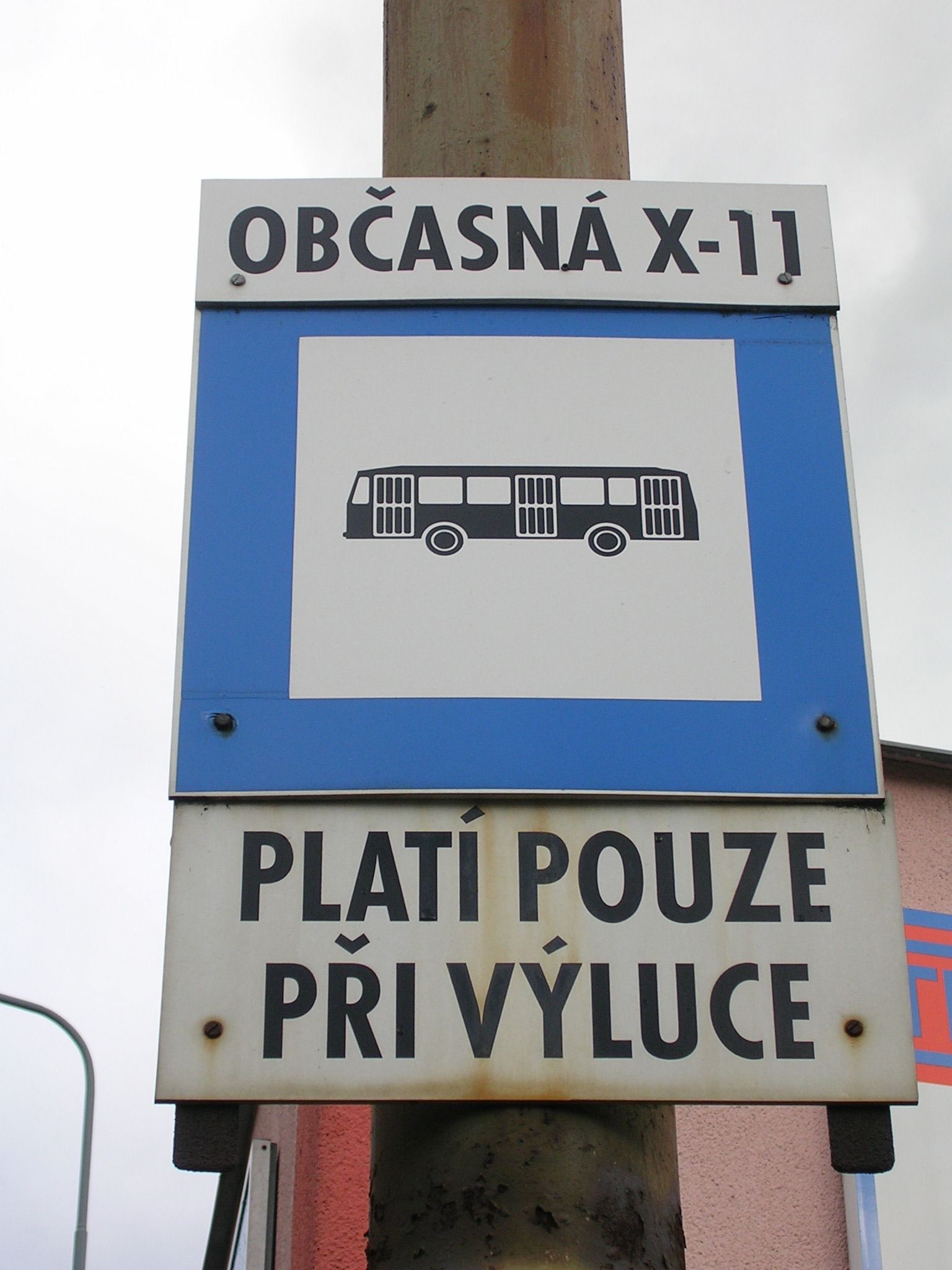 Tramway line between Liberec and Jablonec, Czech Republic. Replacement bus stop "Jablonec nad Nisou, Brandl".